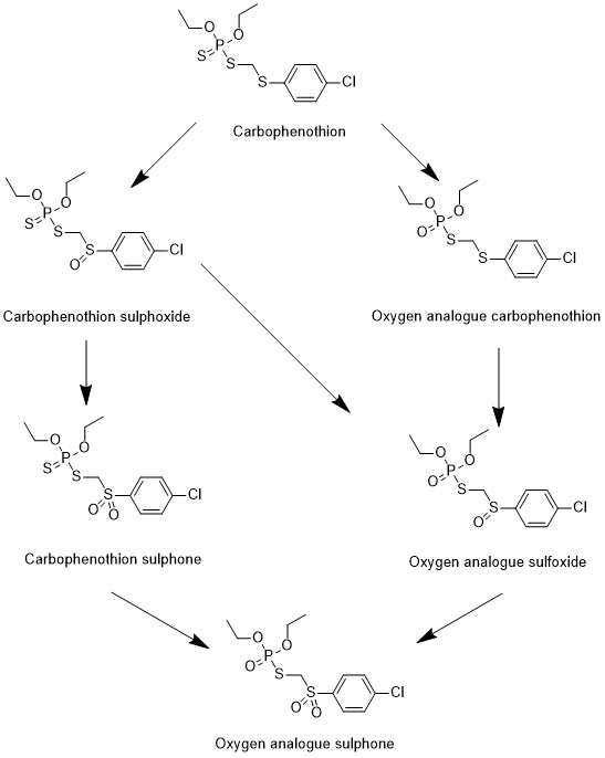 Metabolism of carbophenothion including 5 products of oxidation of carbophenothion. In cooperation with Leanne de Jager.